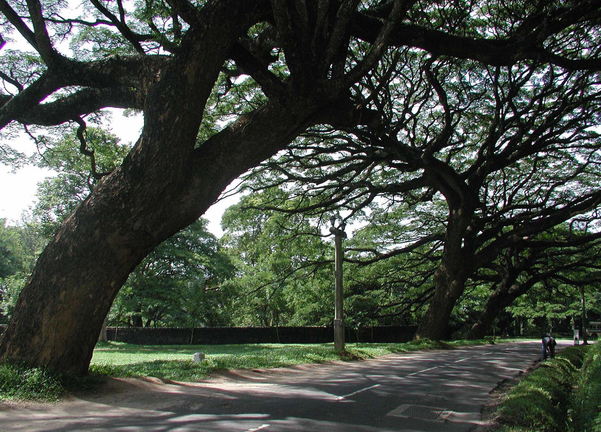 One of beautiful road though the Uni. of Peradeniya